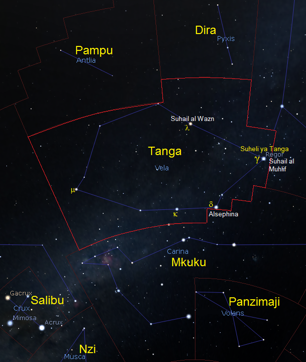 Constellation Vela as seen from Tanzania, Swahili labeled Kiswahili: Kundinyota ya Tanga (Vela) jinsi inavyoonekana Tanzania, kwa majina ya Kilatini - Kiswahili